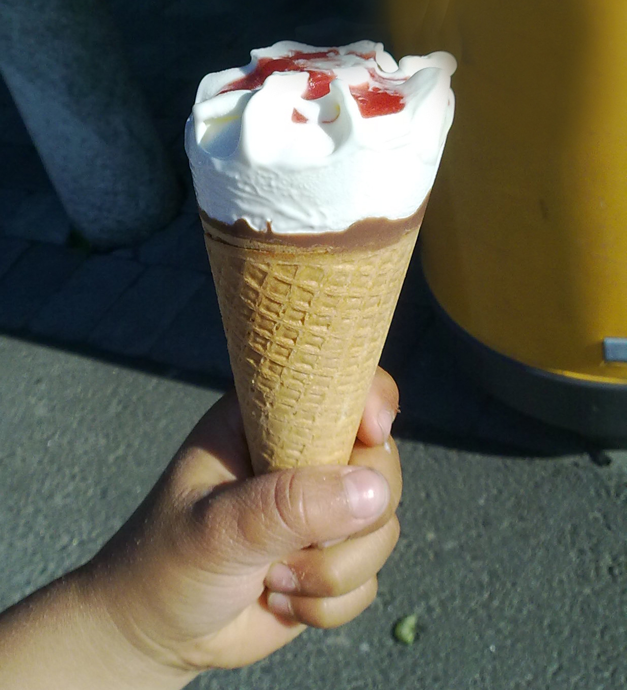 Norwegian ice cream with strawberrys named Krone-is